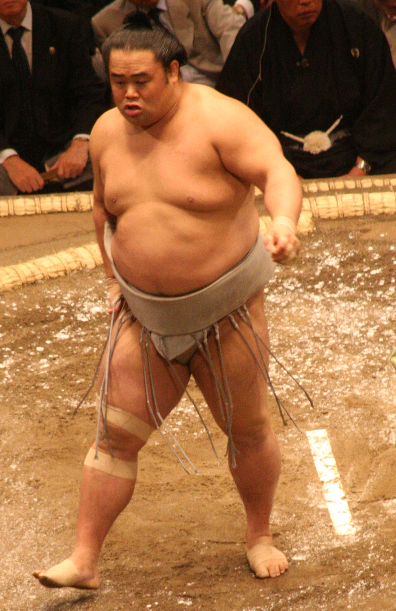 First day of 2009 May Sumo Tournament in Tokyo, Japan - Kakizoe